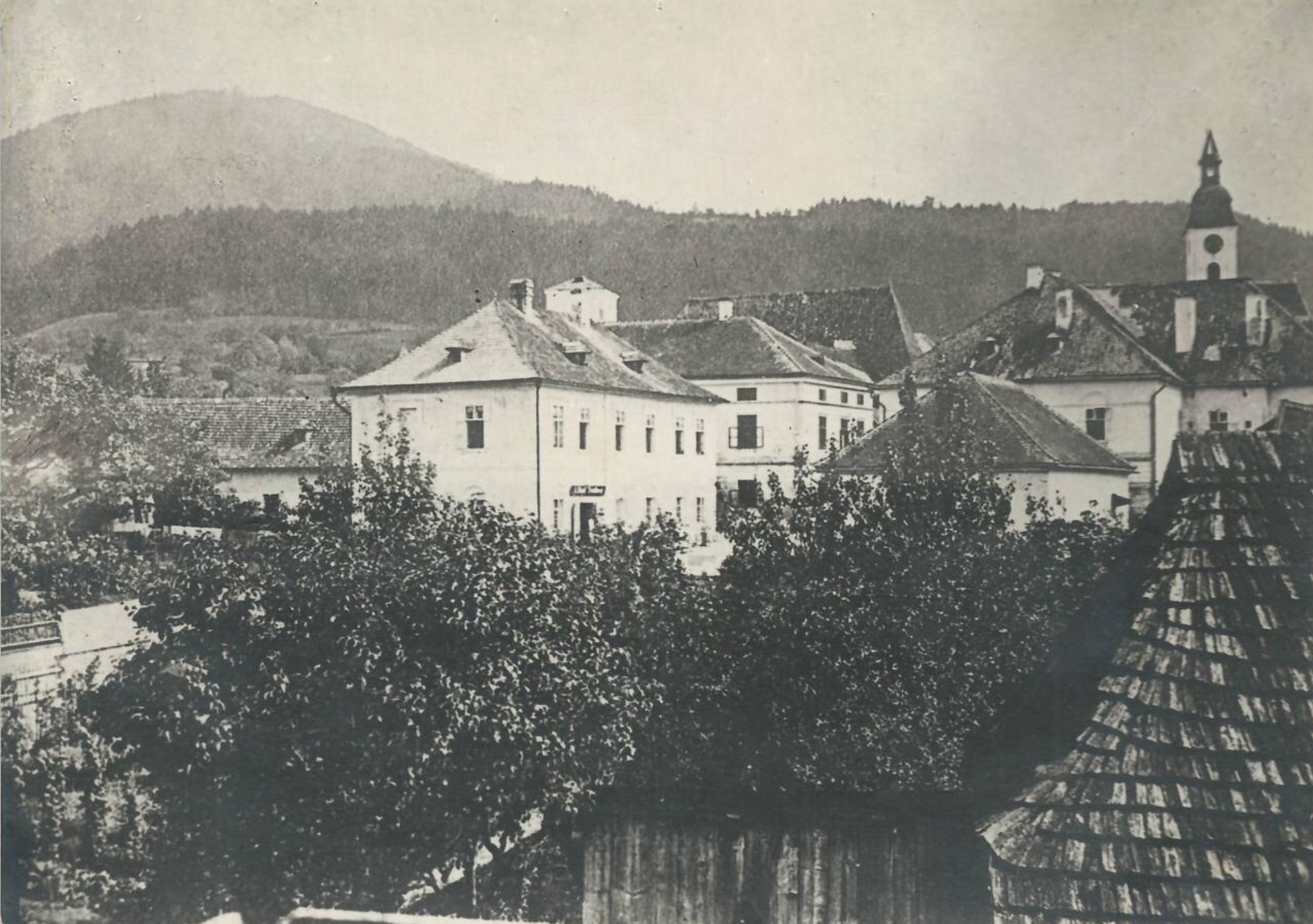 Spaun Elternhaus